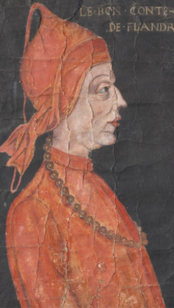 Charles the Good, Count of Flanders